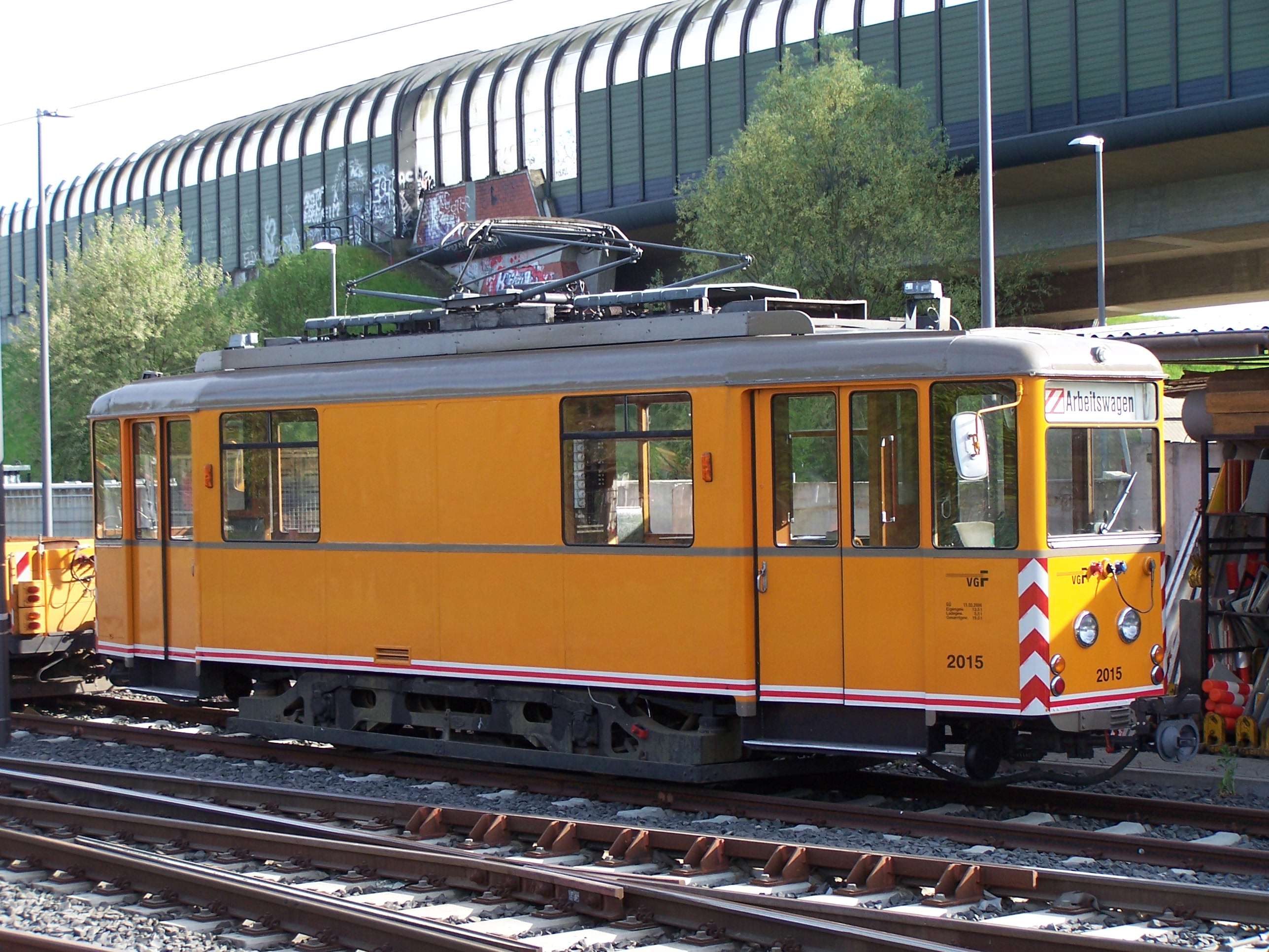 service railcar 2015 at Betriebshof Ost April 2007